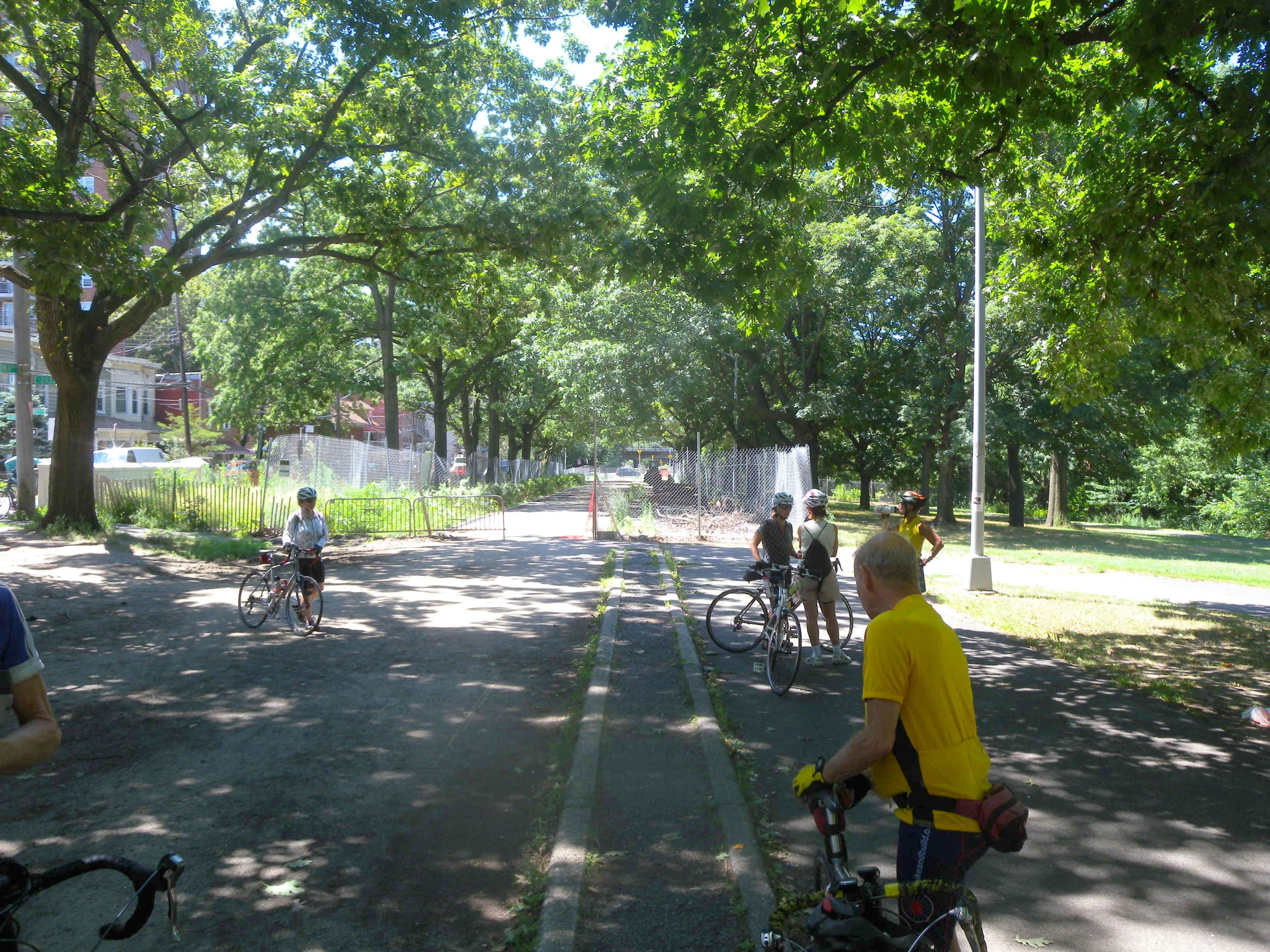 Looking south along the original Parkway towards 213 Street as we await a bike repair on a sunny morning.